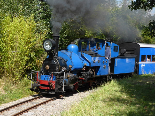 Beeches Light Railway - attacking the bank. Darjeeling Himalayan Railway locomotive No. 19, built in Glasgow in 1889, is hammering up one of two steep banks on this 'garden railway'. On the real railway there would be two men on the buffer beam hand sanding the rail-head from the blue sand box in the middle. A ticket only steaming on this private railway.